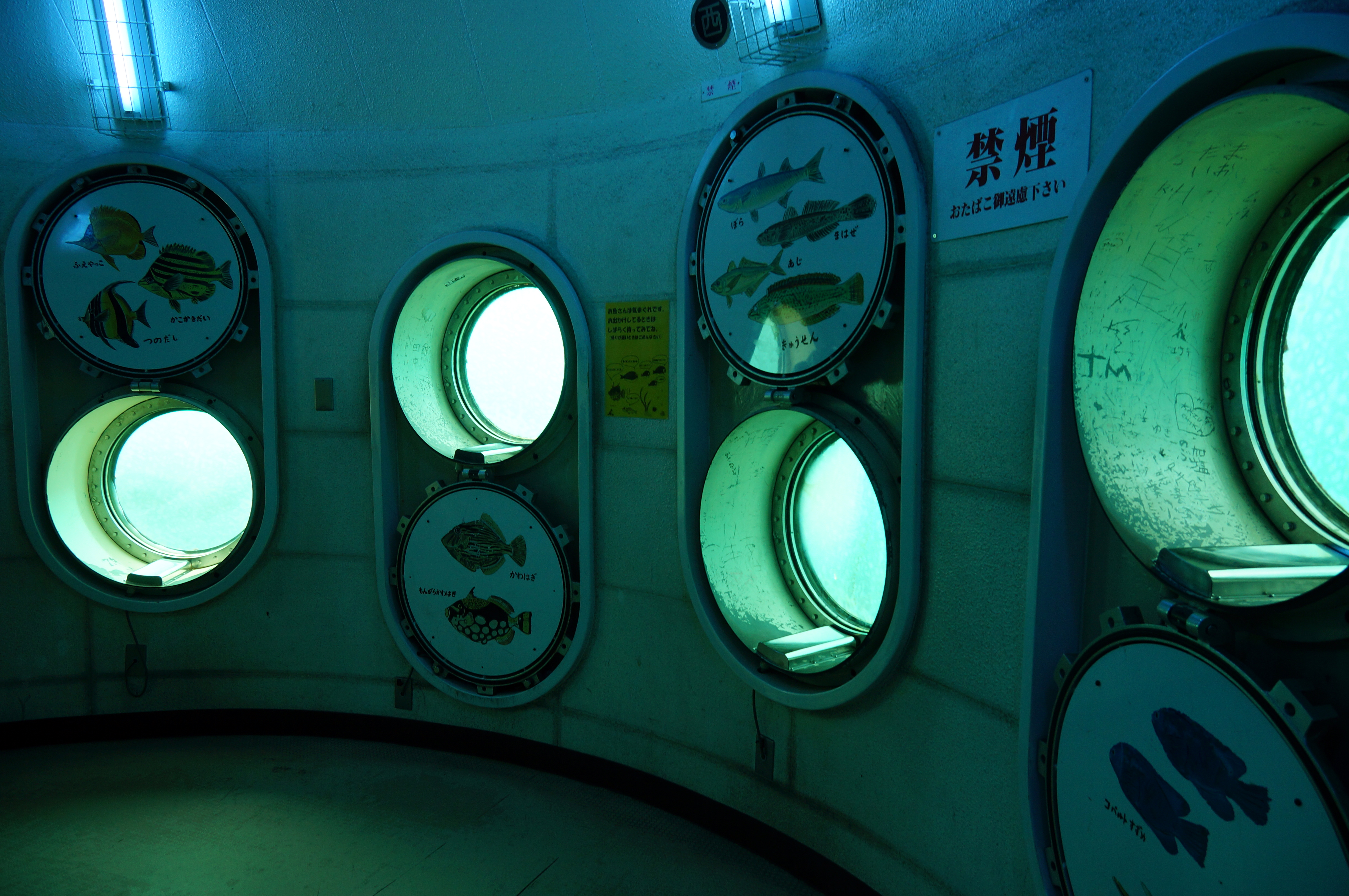 Shirahama Kaichu Observatory Deck in Shirahama, Wakayama prefecture, Japan.